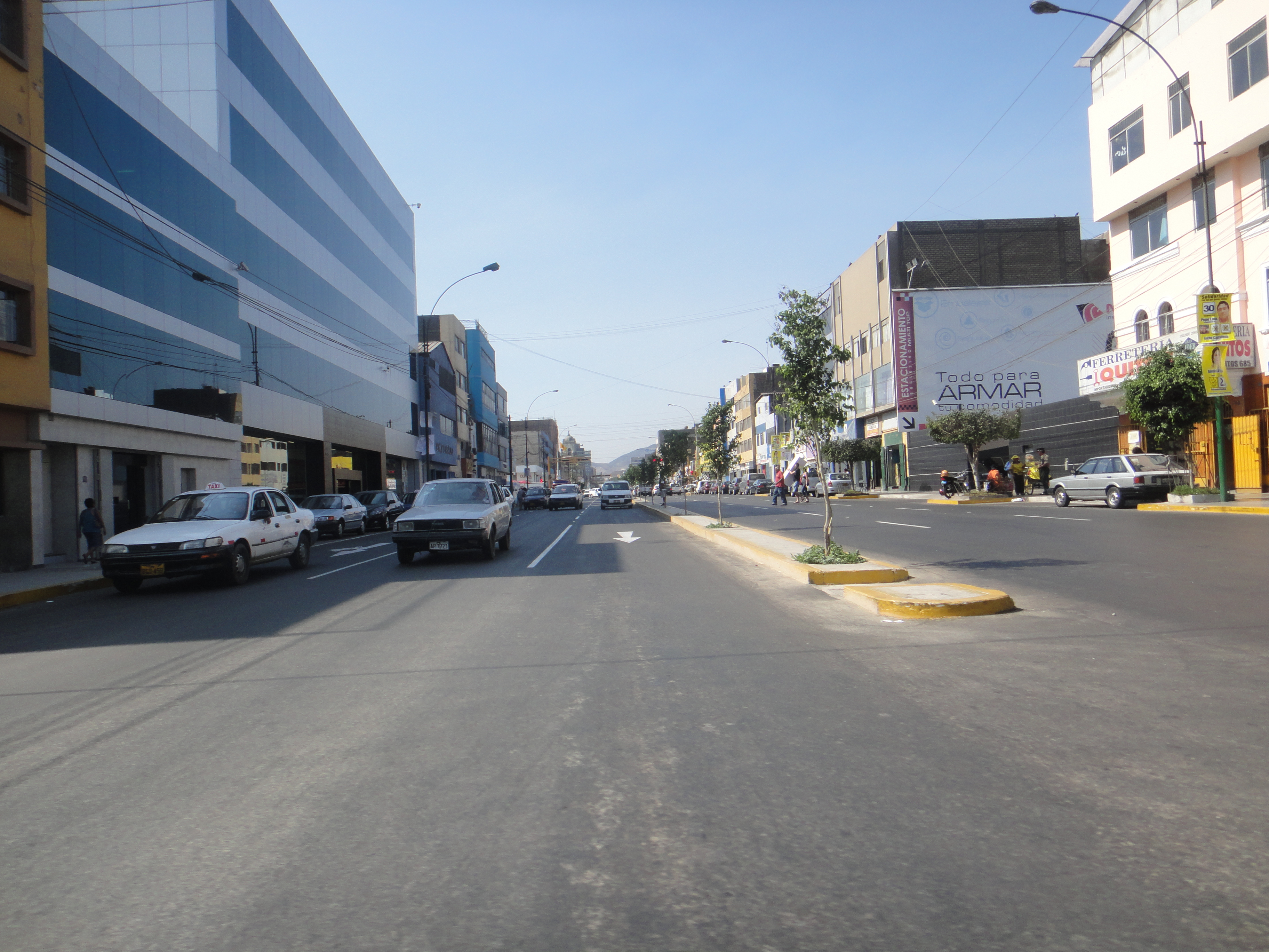 Iquitos Ave., La Victoria District in Lima, Peru.